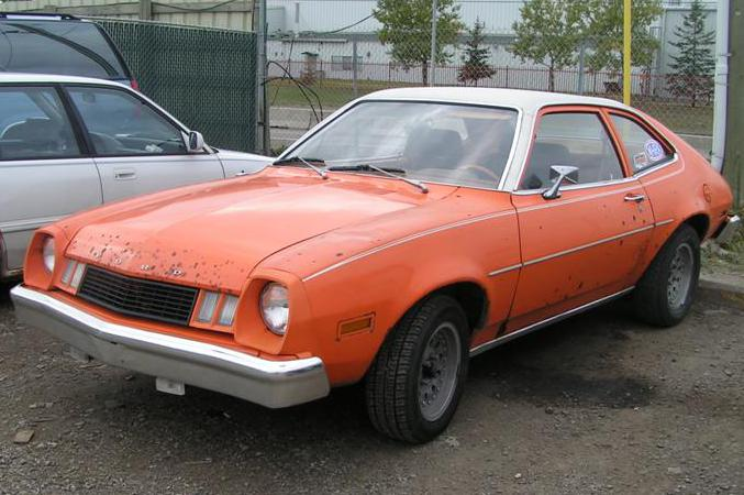 Ford Pinto